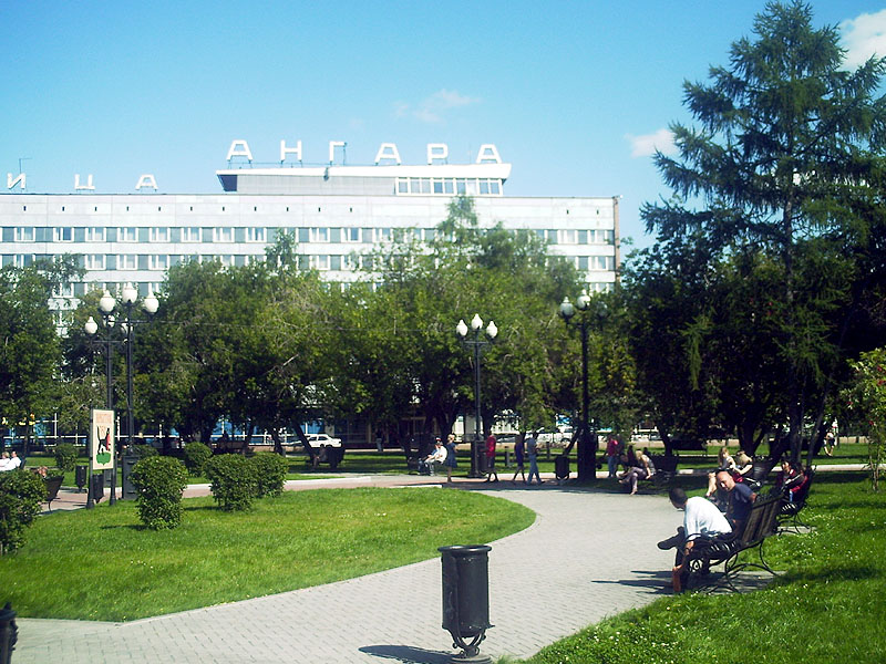 Kirov's square in Irkutsk